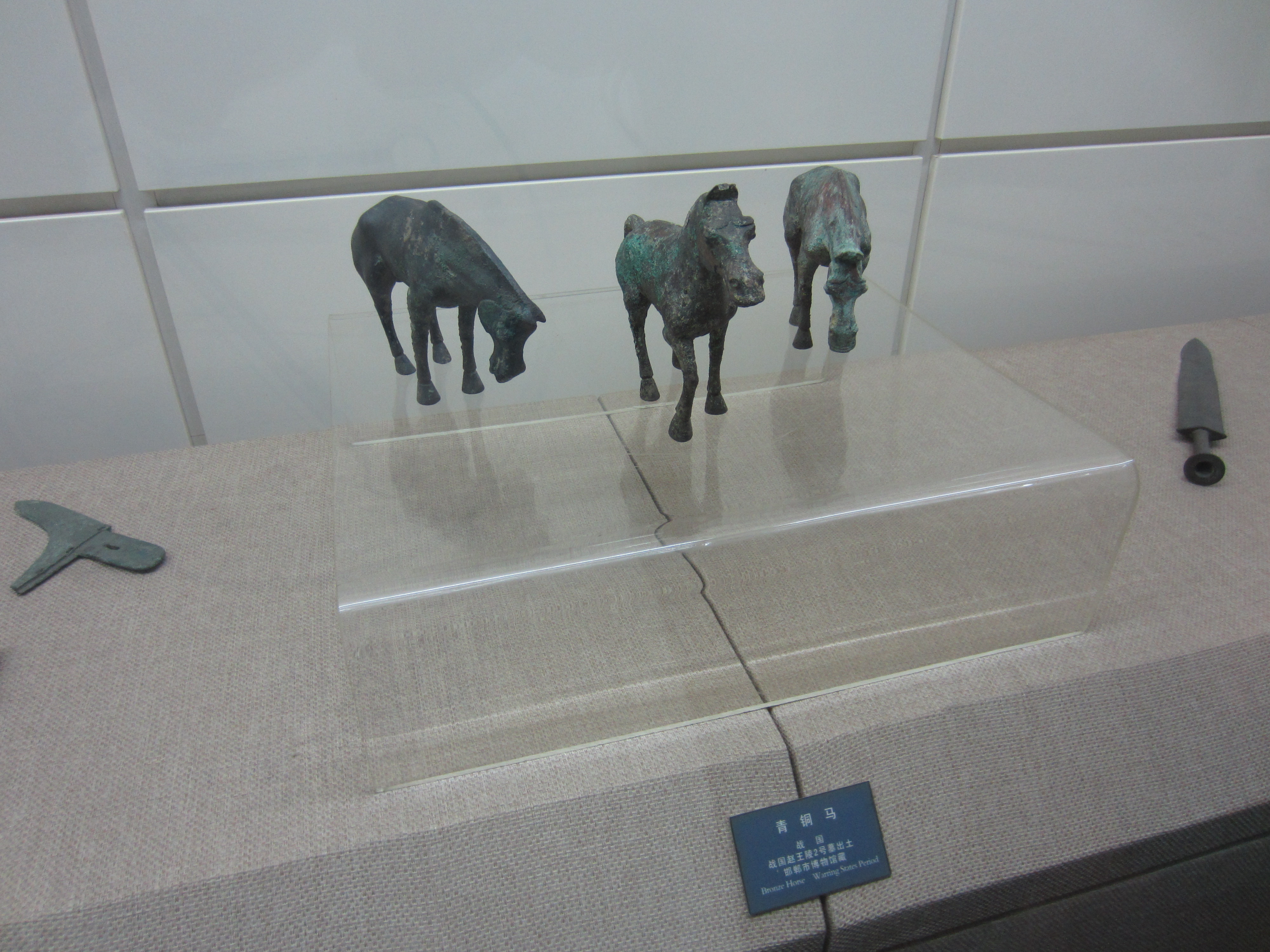 Chun qiu zhan guo period of cultural relics, and now collection in the Handan Museum.